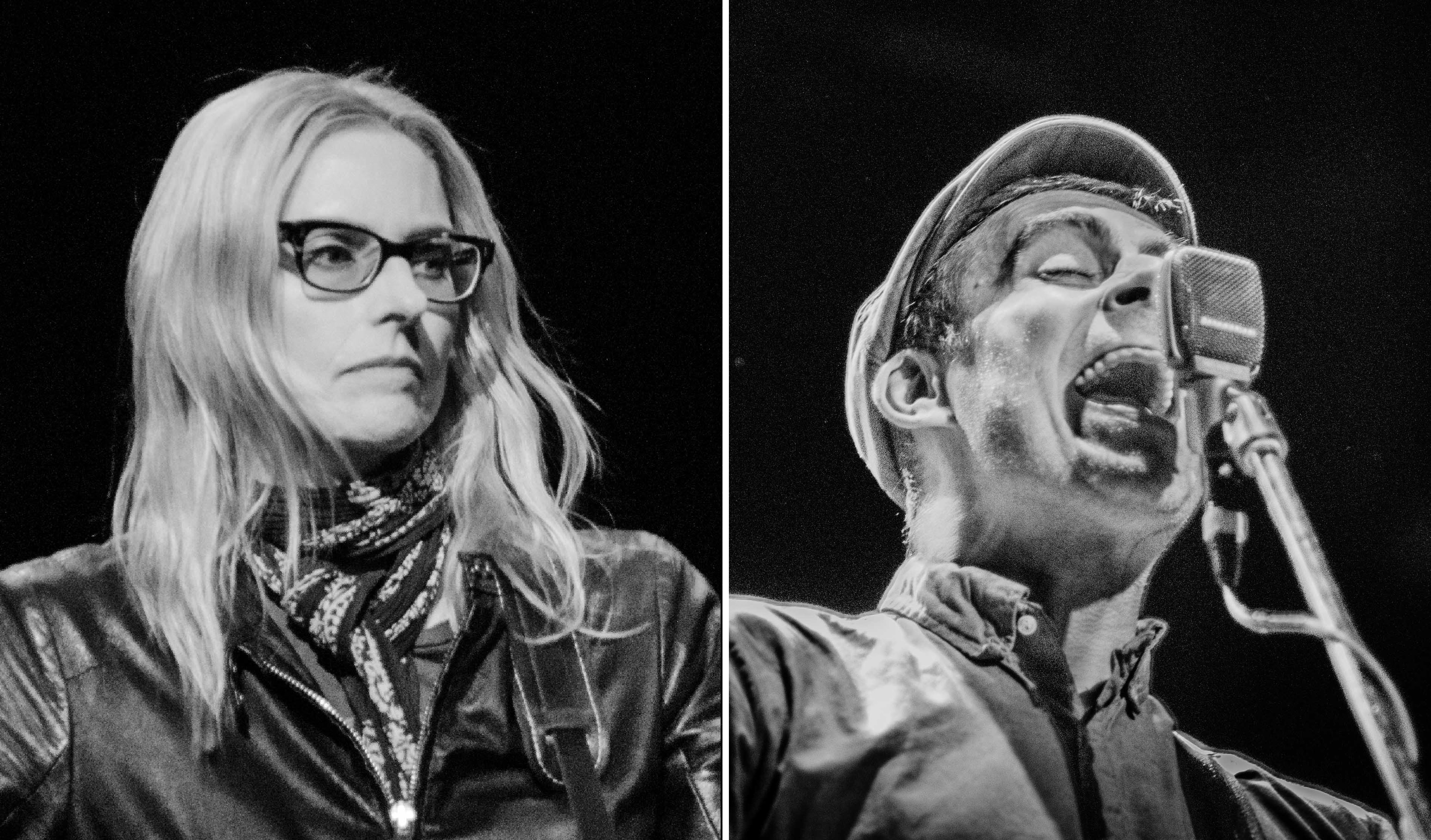 Aimee Mann and Ted Leo performing at the Pabst Theater in Milwaukee on November 11, 2012. Composite of two original photos.